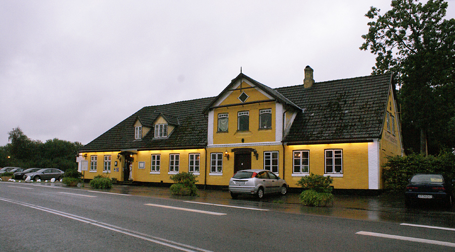 Restaurant Elverdamskroen southeast of Holbæk, Denmark